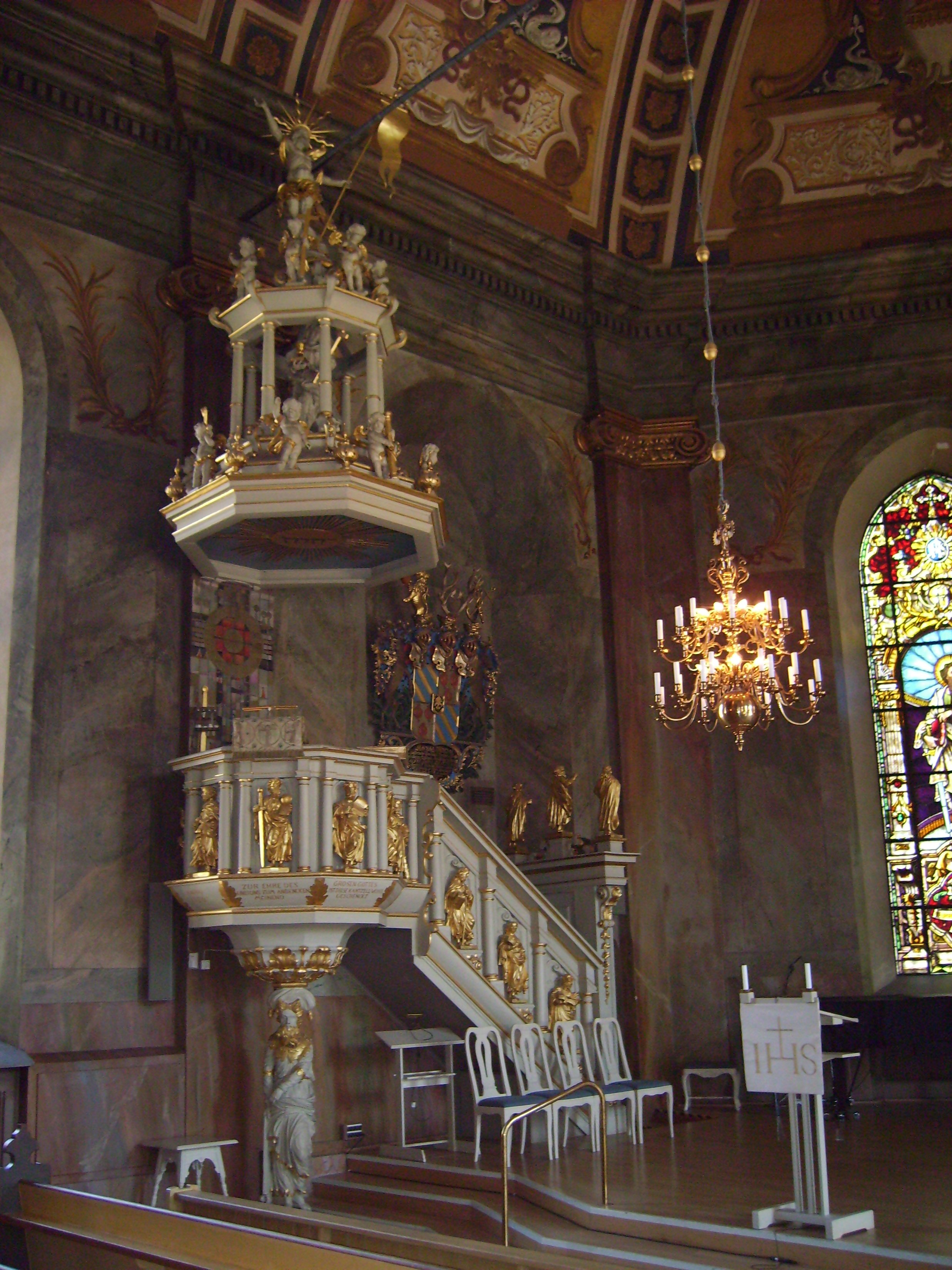 Photo by Harri Blomberg.